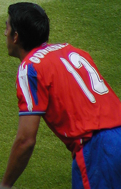 Leonardo González. Image cropped from original at flickr